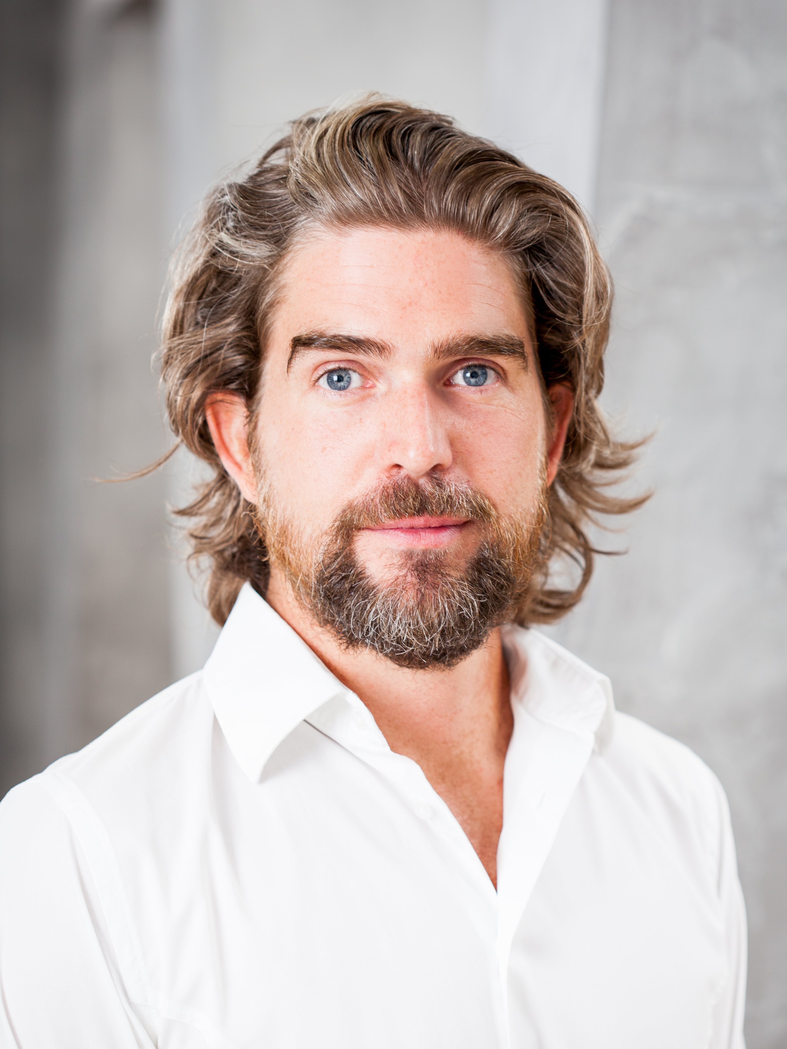 Nils Glagau, Chief Executive Officer of Orthomol